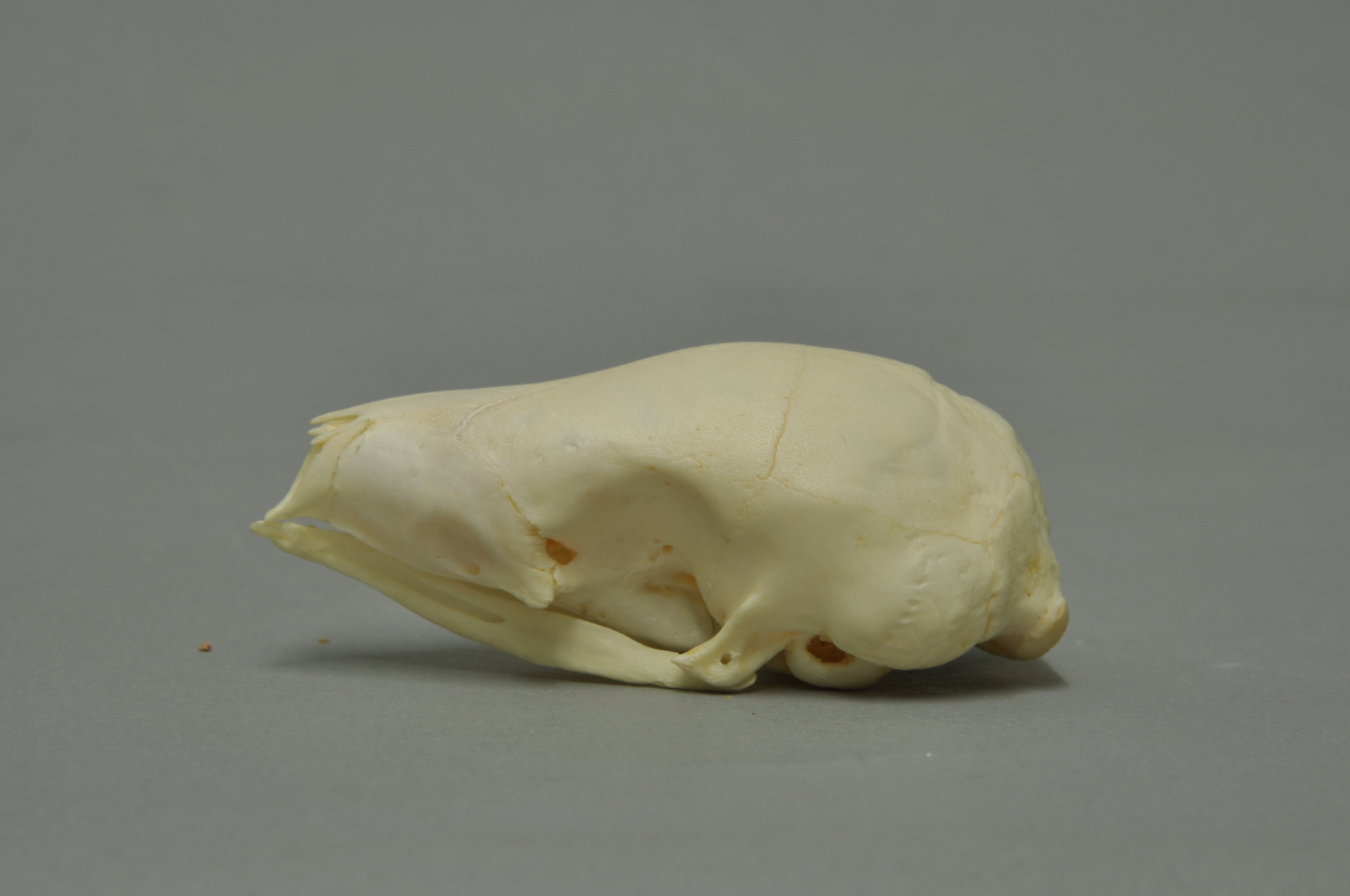 Ground pangolin Manis temminckii , skull, Coll. Museum Wiesbaden